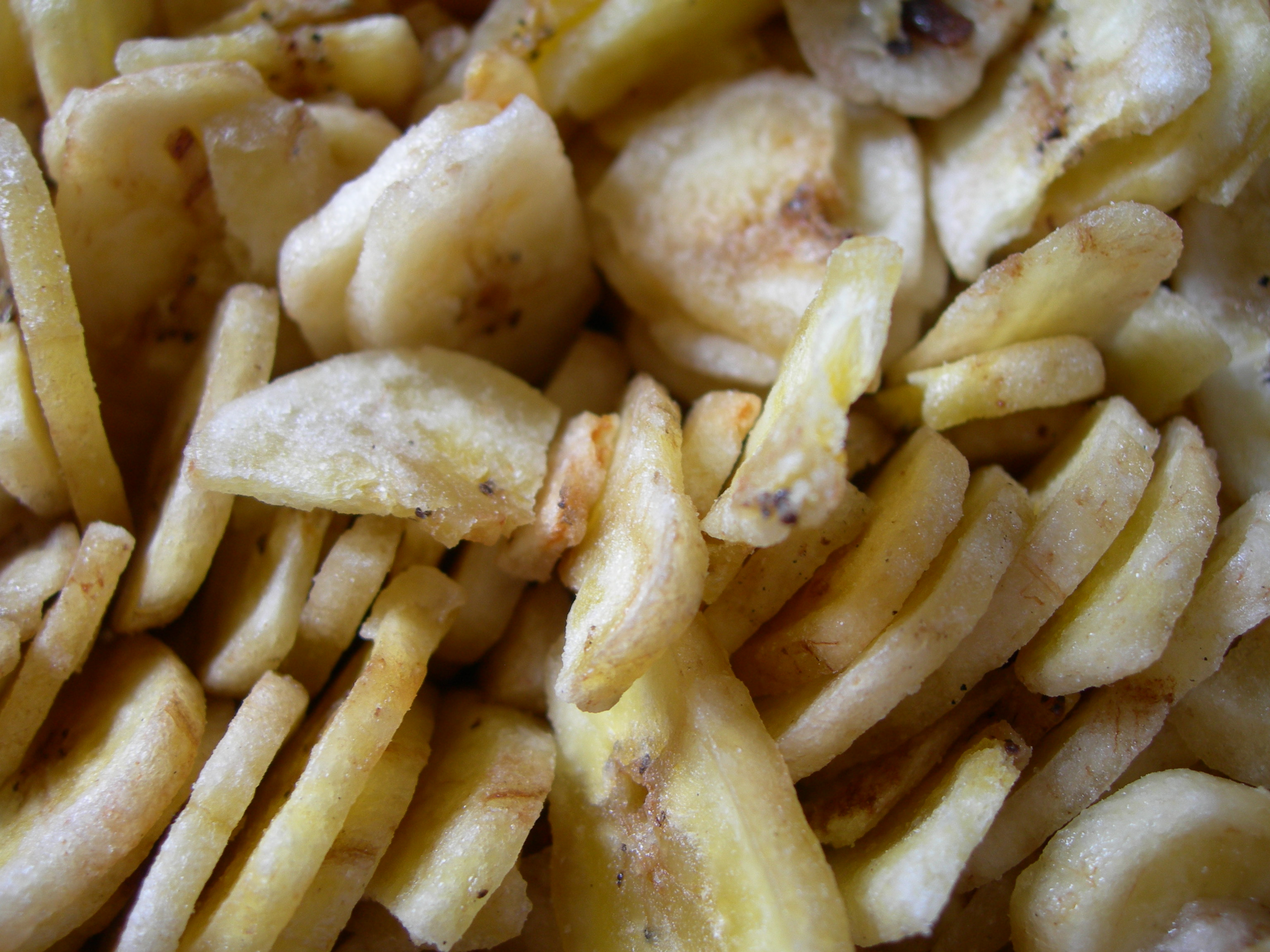 This picture of banana chips was taken by Karen L. Houle, and she release it into the public domain.